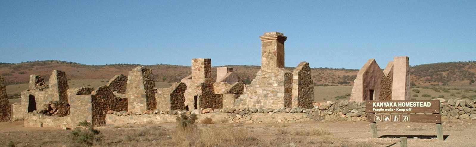 Kanyaka homestead, Flinders Ranges, North of Adelaide, South Australia